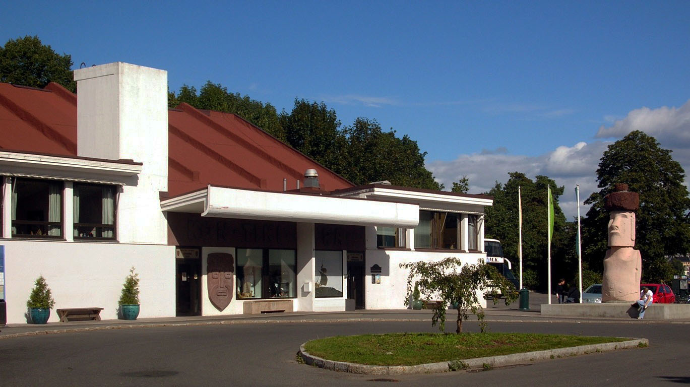 Kon-Tiki Museet in Oslo, Norway. Cropped version.